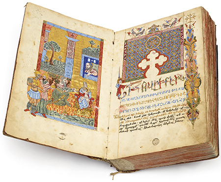 A lectionary containing scripture readings and prayers read throughout the year. This copy is showing the adoration of the Magi on the left. The right-hand page relates the announcement of Christ’s birth to the shepherds. The manuscript dates from 1632.